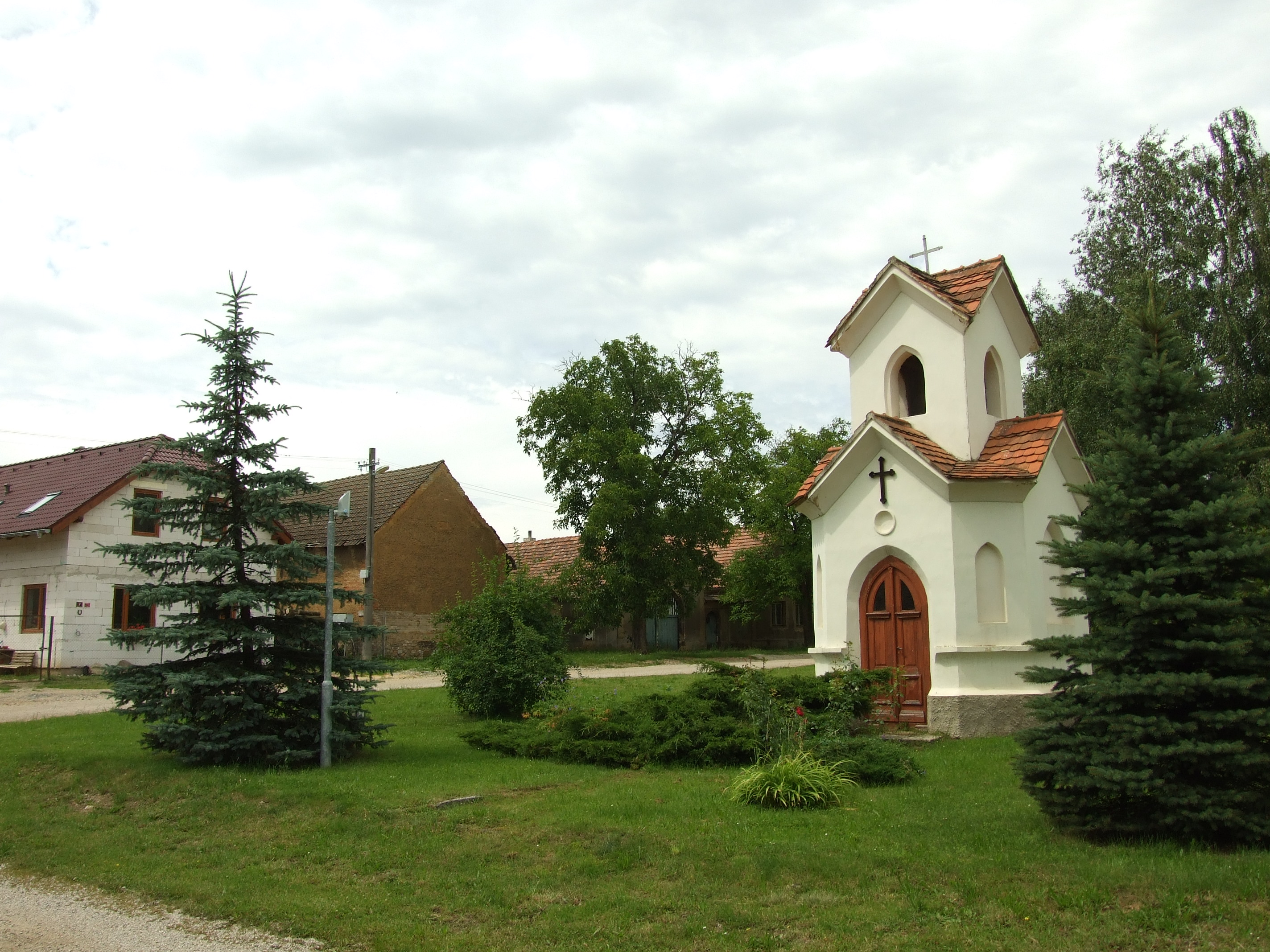 Town of Vysoký Újezd and surrounding countryside in Central Bohemian Region situated close to Prague, CZ